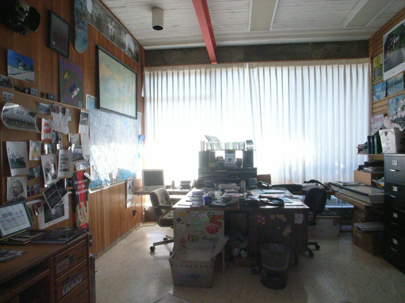 Thrasher magazine office ex. Jake phelps